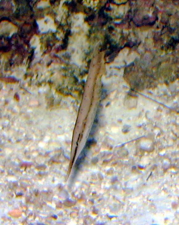 Razorfish (Aeoliscus punctulatus) at Newport Aquarium